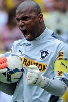 Jefferson with Botafogo in 2014